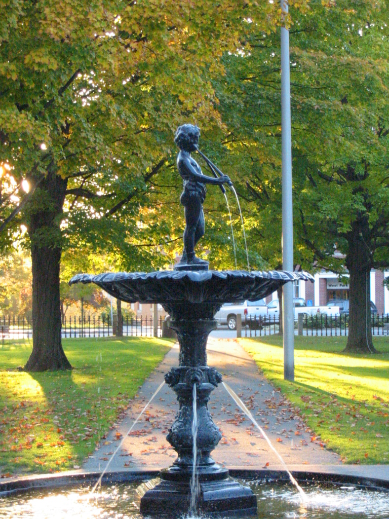 Fountain in Colburn park. Lebanon, NH